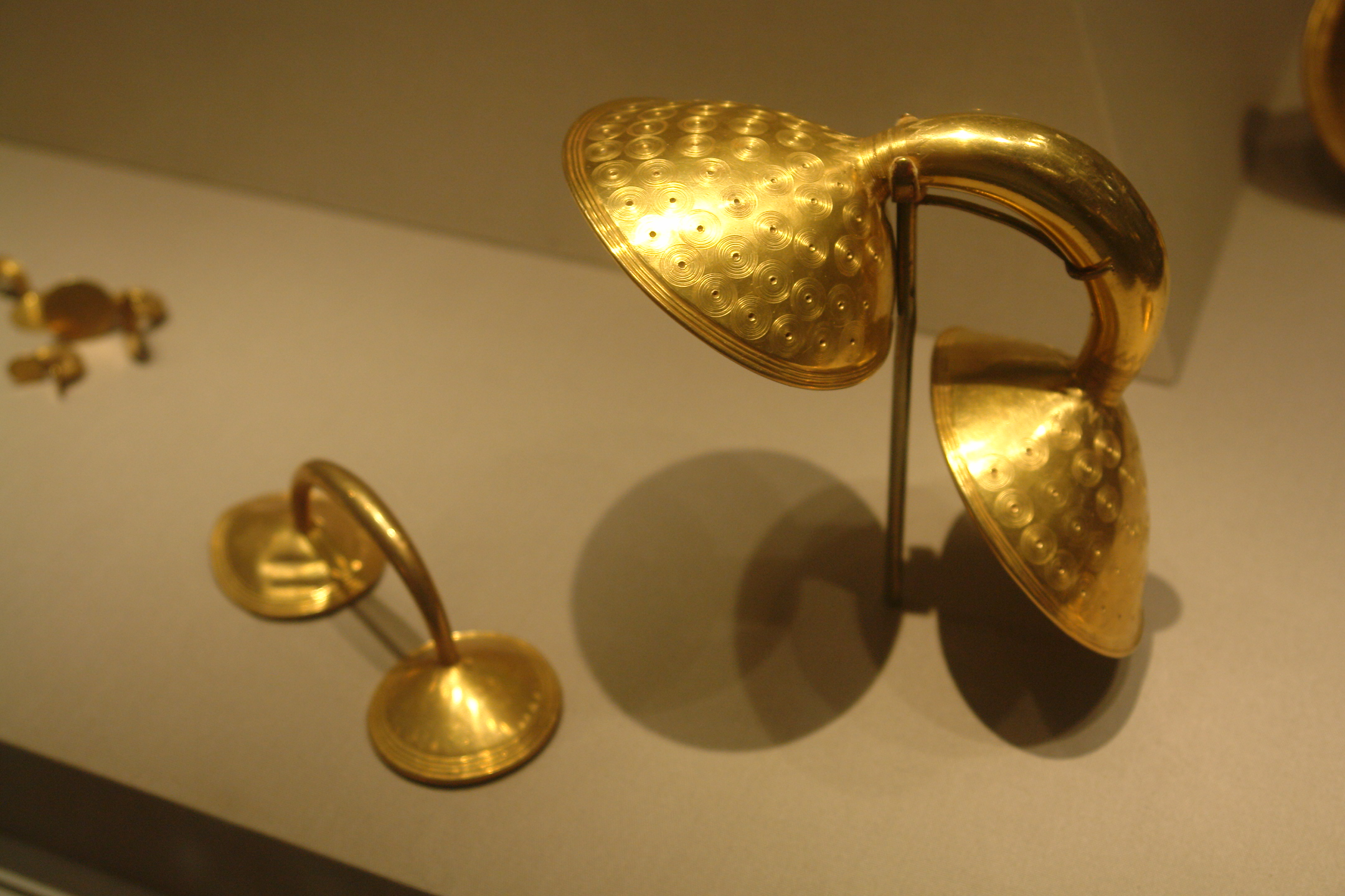 Artefact in the National Museum of Ireland, Kildare Street, Dublin, Ireland